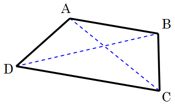 Geometrie trapeze